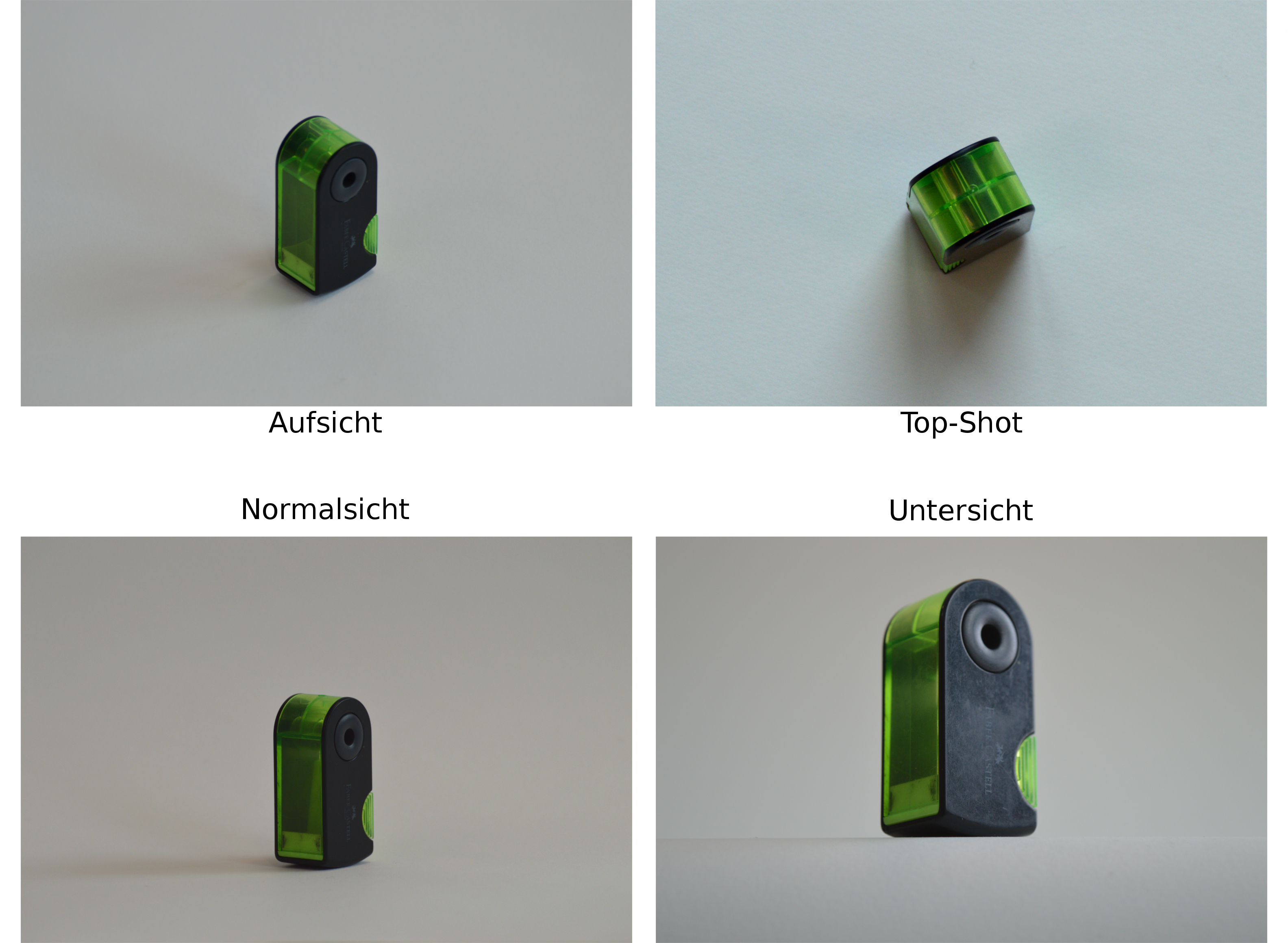 High-Angle-Shot, Top-Shot, Low-Angle-Shot